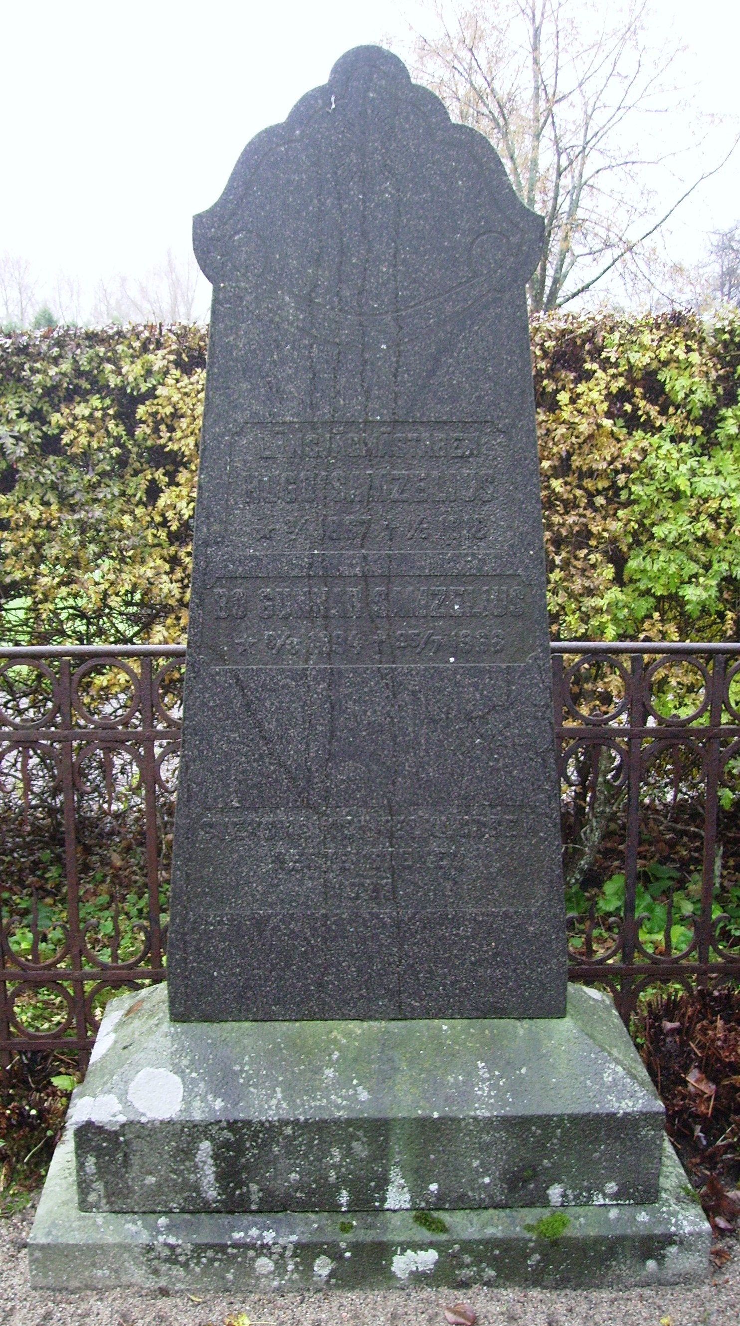 Picture of Hugo Samzelius' grave at Alla Helgona kyrkogård in Nyköping